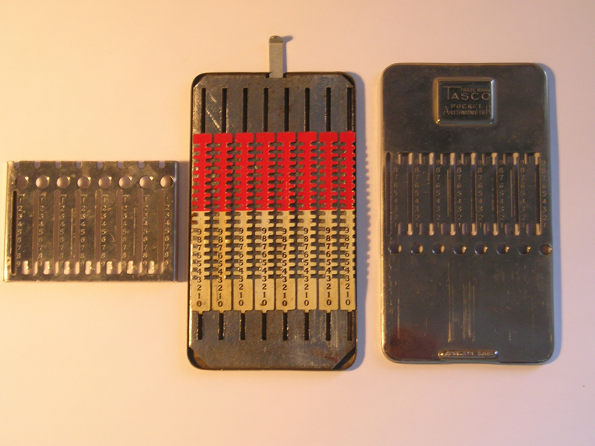 Constitutive elements of TASCO pocket adder.